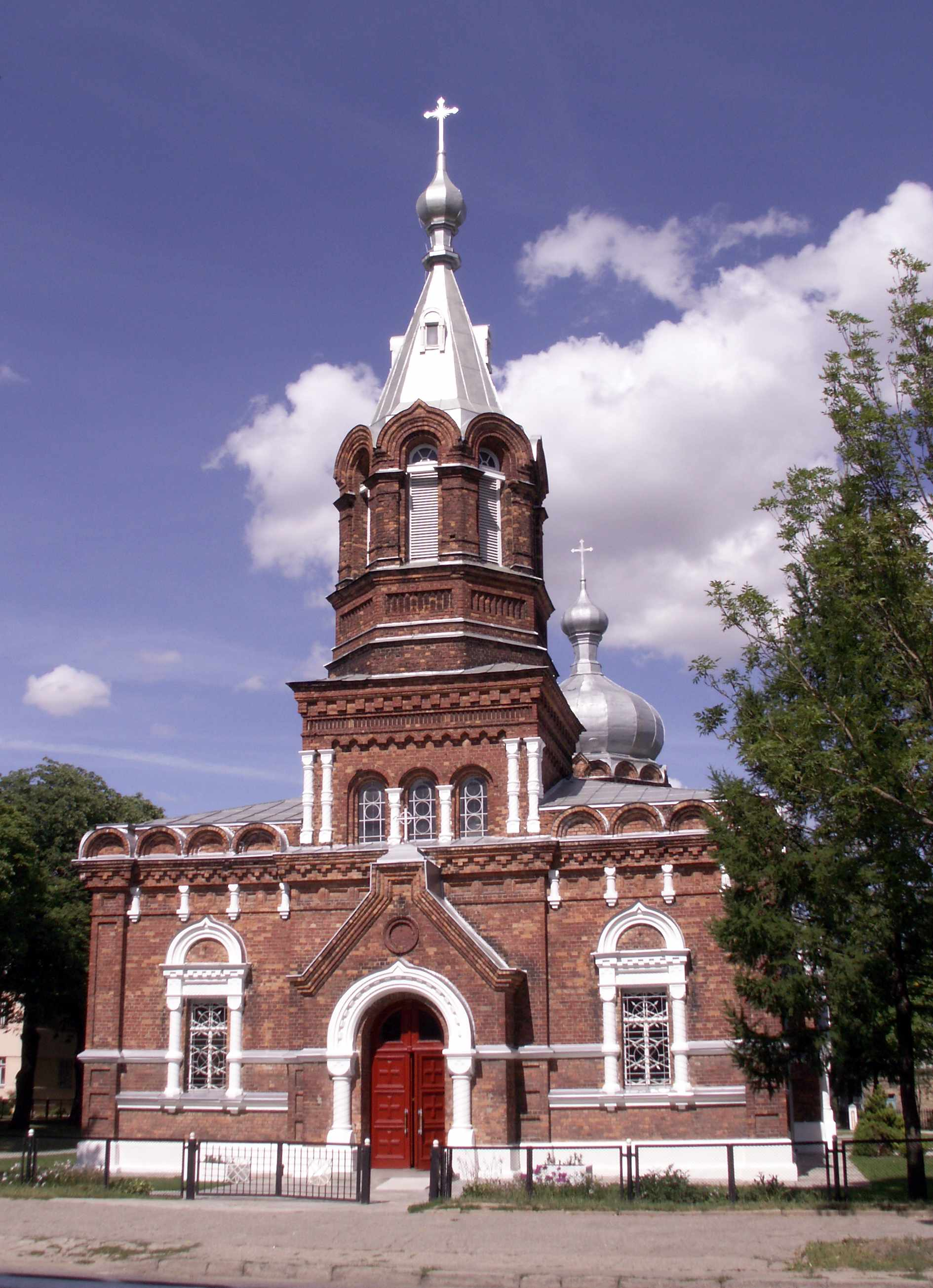 Church of St. Georg in Šiauliai, Lithuania